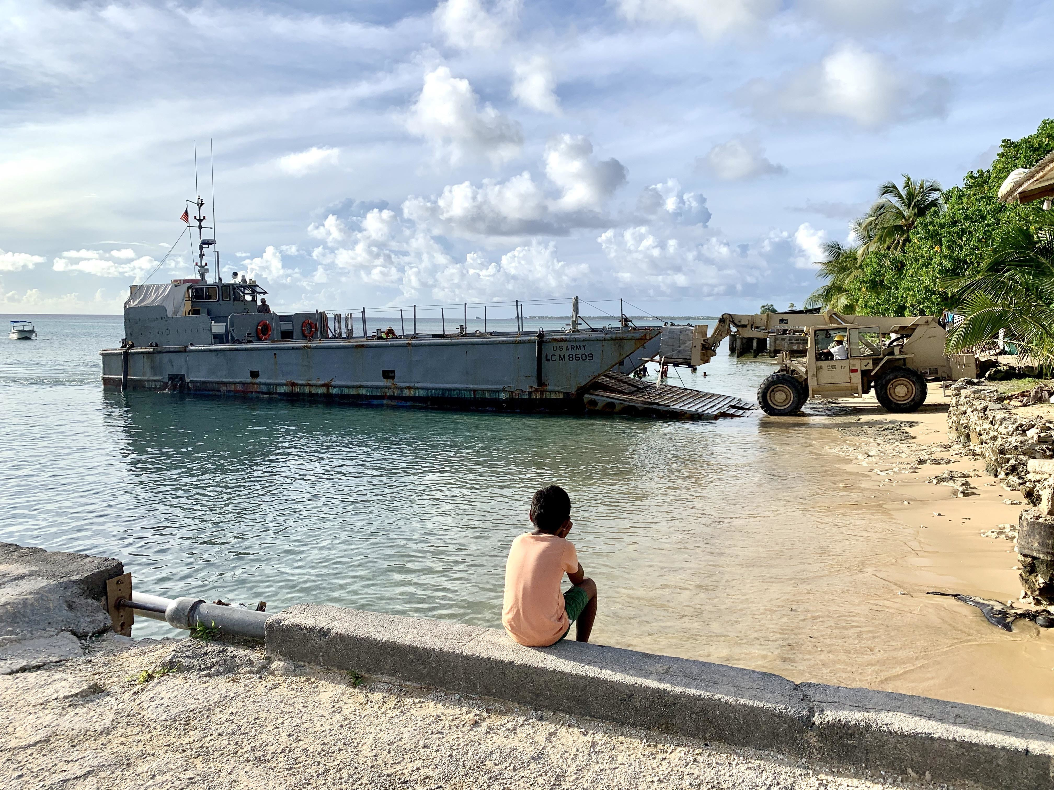 ENNIBUR, Marshall Islands (Oct. 26, 2019) A Marshall Islander watches a forklift offload materials and tools to be used by Seabees assigned to Civic Construction Action Detail Marshall Islands, deployed with Naval Mobile Construction Battalion (NMCB) 5 on Enniburr Islet on Kwajalein Atoll in the Republic of Marshall Islands. U.S. Navy Seabees deployed with NMCB-5’s Detail Marshall Islands are constructing a concrete evacuation center that will serve as the Enniburr local community’s disaster preparedness building. NMCB-5 is deployed across the Indo-Pacific region conducting high-quality construction to support U.S. and partner nations to strengthen partnerships, deter aggression, and enable expeditionary logistics and naval power projection. (U.S. Navy photo by Construction Electrician 3rd Class Christian Carnate/Released) 191026-N-PG340-1003